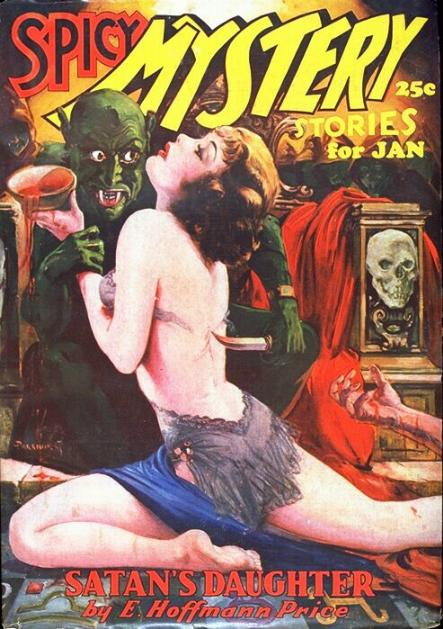 Cover of the pulp magazine Spicy Mystery Stories (January 1936, vol. 2, no. 3) featuring "Satan's Daughter" by E. Hoffmann Price.